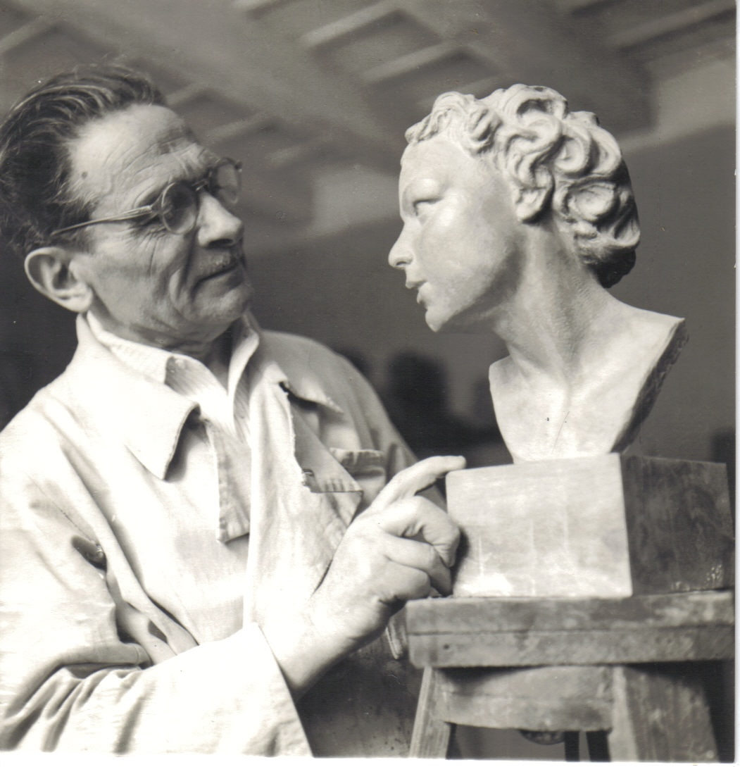 Photo of sculptor Mario Sarto